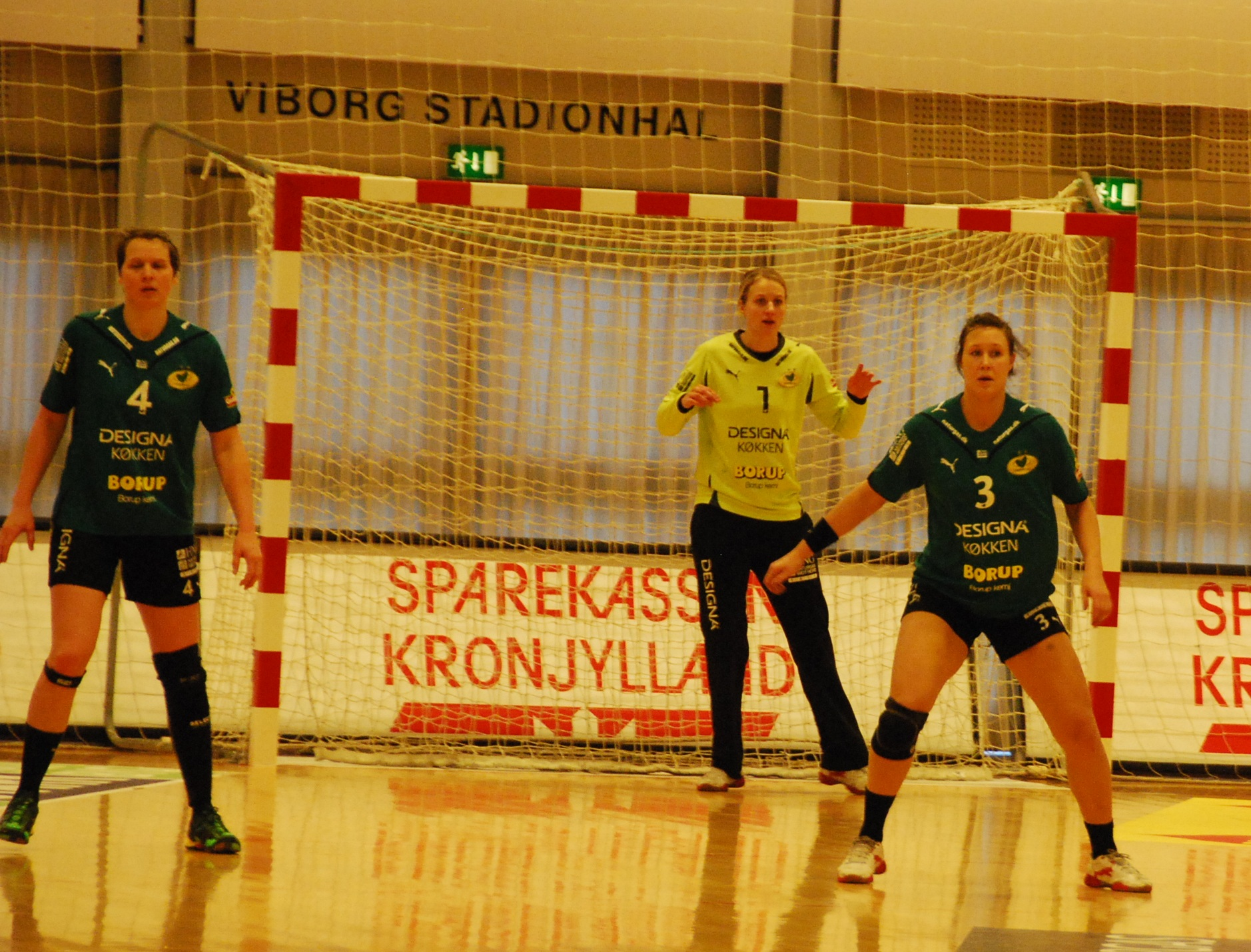 From left: Grit Jurack, Louise Bager Due and Marit Malm Frafjord. 1/8 final in EHF Cup Winners Cup 2010/11, 5. February 2011 // Viborg HK vs. Ferencvárosi TC 34-33 in Viborg Stadionhal.